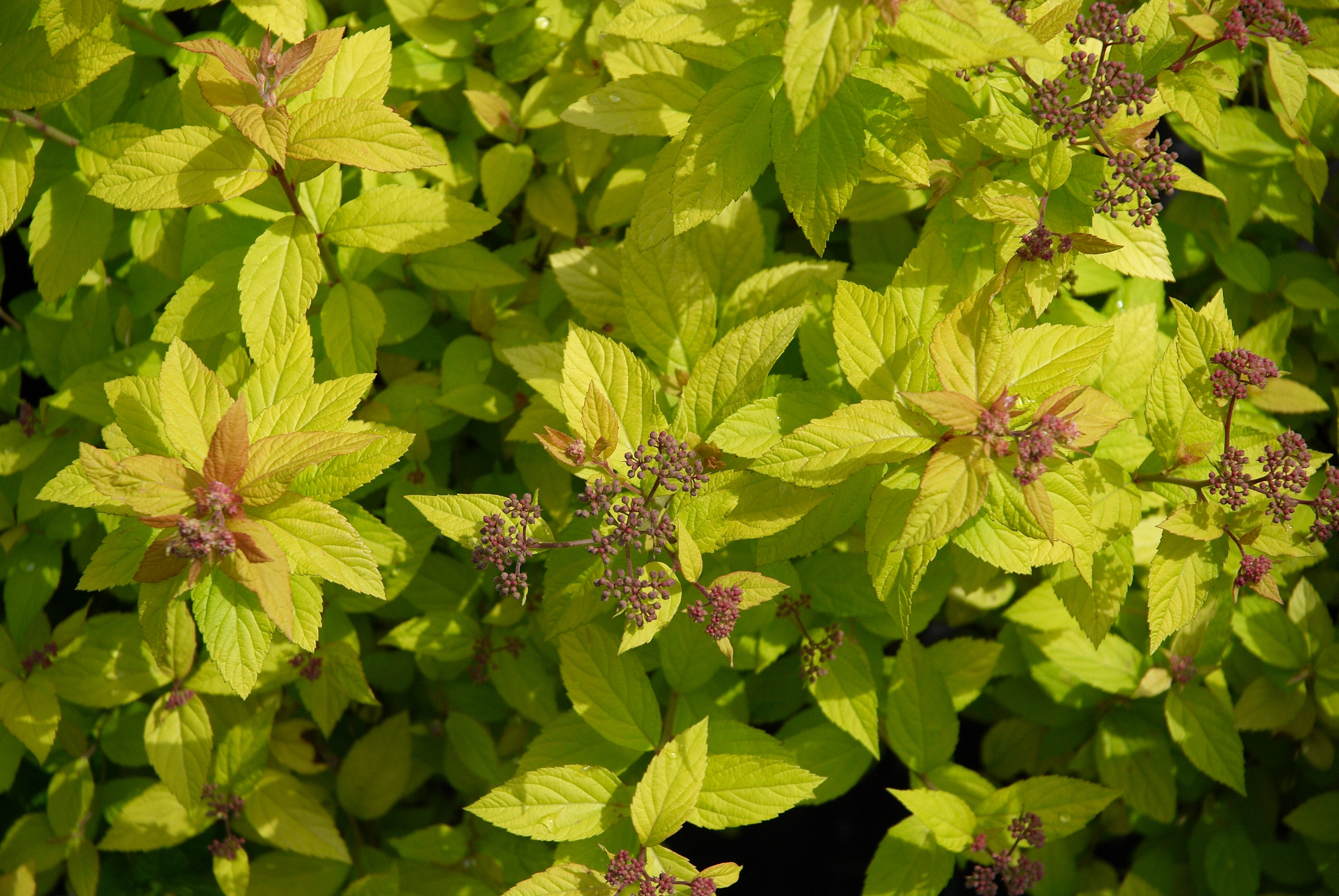 Spiraea japonica 'Golden Princess'. This photo has been taken in Belgium.